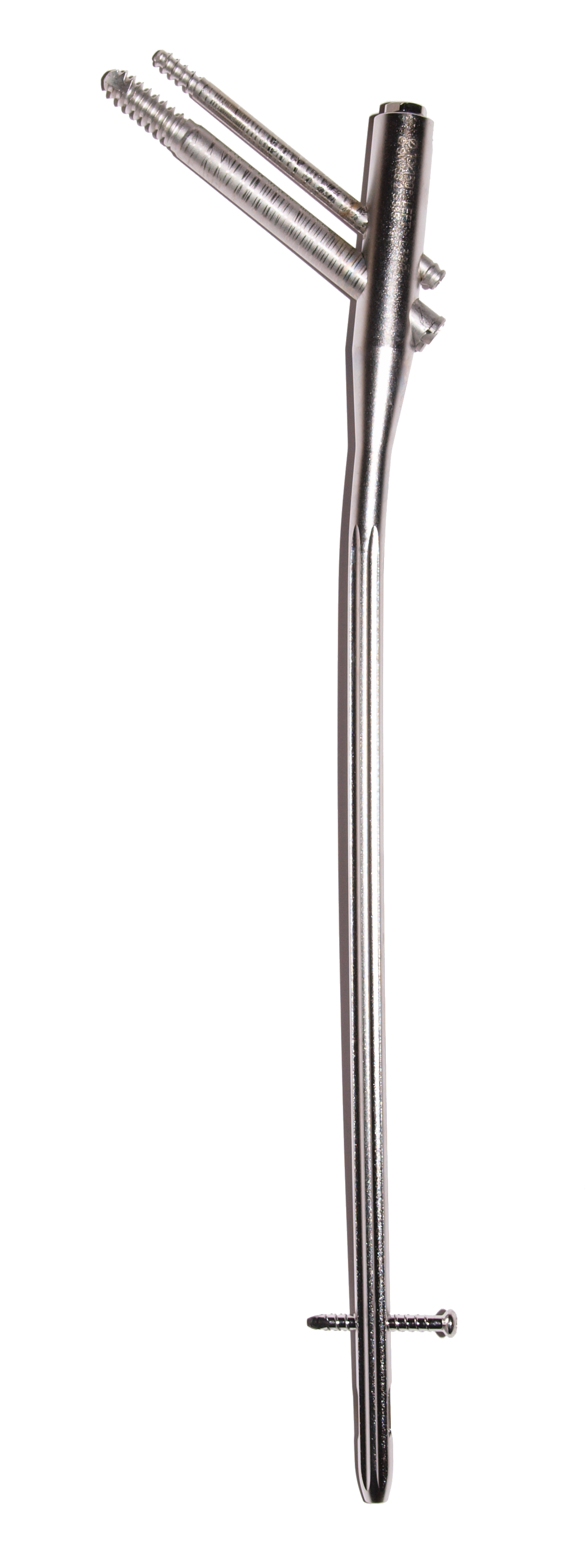 Proximal Femur Nail with locking and stabilisation screws for treatment of femur fractures of left thigh. Length of the nail 380 mm, length over all 400 mm. Diameter of the lower nail 11 mm. Implant has been used for 18 months. All screws are in working position. (Background removed, shadowed)